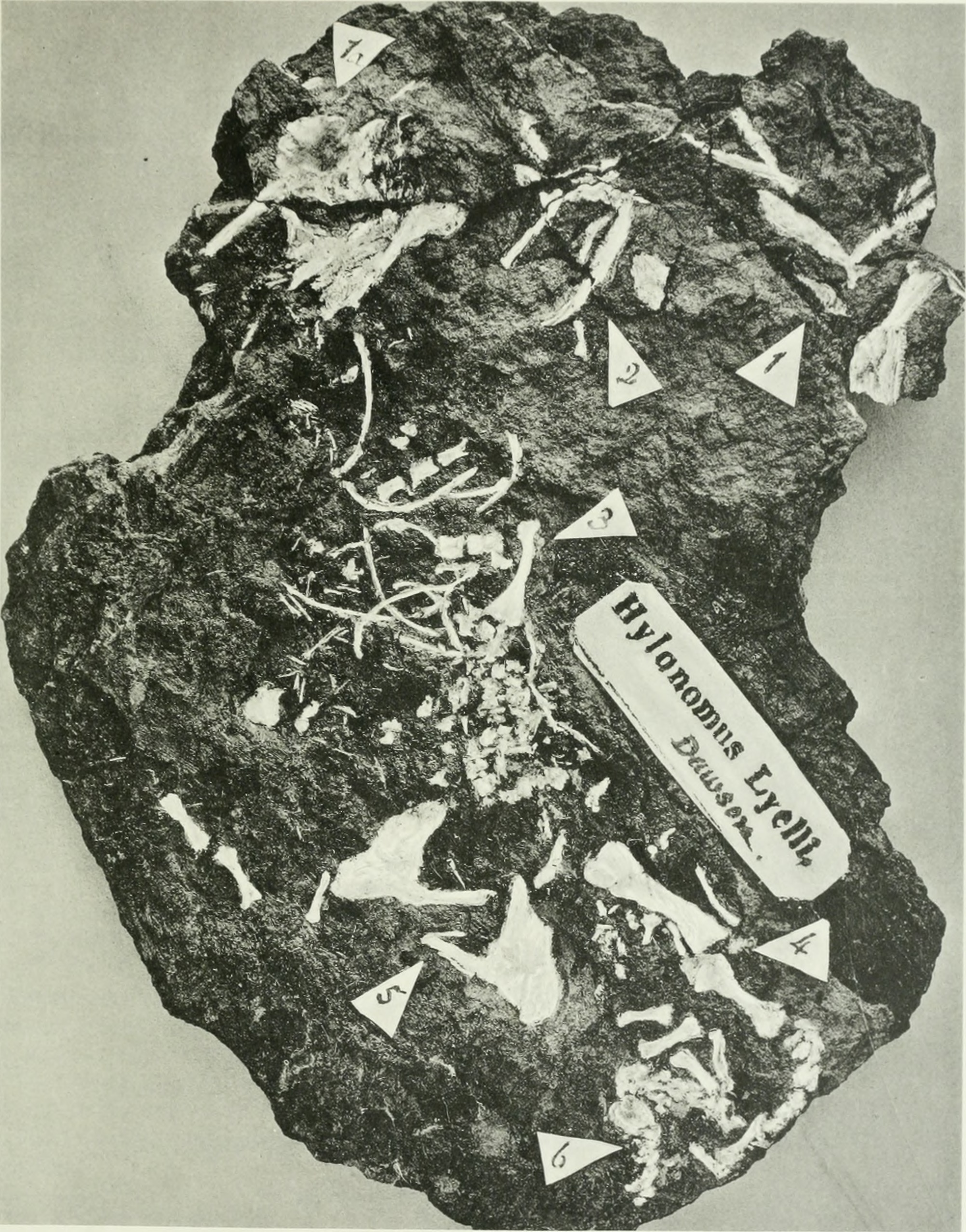 Title: The coal measures Amphibia of North America Year: 1916 (1910s) Authors: Moodie, Roy Lee, 1880-1934 Subjects: Amphibians, Fossil; Paleontology; Paleontology Publisher: Washington Carnegie Institution of Washington Original figure caption: Hylonomus lyelli Dawson. 1, maxillæ and skull bones; 1a, sternal bones; 2, mandible; 3, humerus, ribs, and vertebræ 4, posterior limb; 5, pelvis; 6, caudal vertebræ. Nearly natural size. Erect tree, Coal formation, South Joggins, Nova Scotia. Photograph by Dawson, published through the courtesy of Dr. Arthur Willey. Original in the British Museum. Additional note on this image: The photograph shows the holotype British Museum of Natural History (BMNH) R.4168 of the early eureptile Hylonomus lyelli Dawson 1860 (cf. fig. 1 in Robert L. Carroll, 1964: The earliest reptiles. Journal of the Linnean Society (Zoology). 45(304):61-83, from the Pennsylvanian Joggins Formation of Nova Scotia. General note Please note that these images are extracted from scanned page images that may have been digitally enhanced for readability - coloration and appearance of these illustrations may not perfectly resemble the original work.